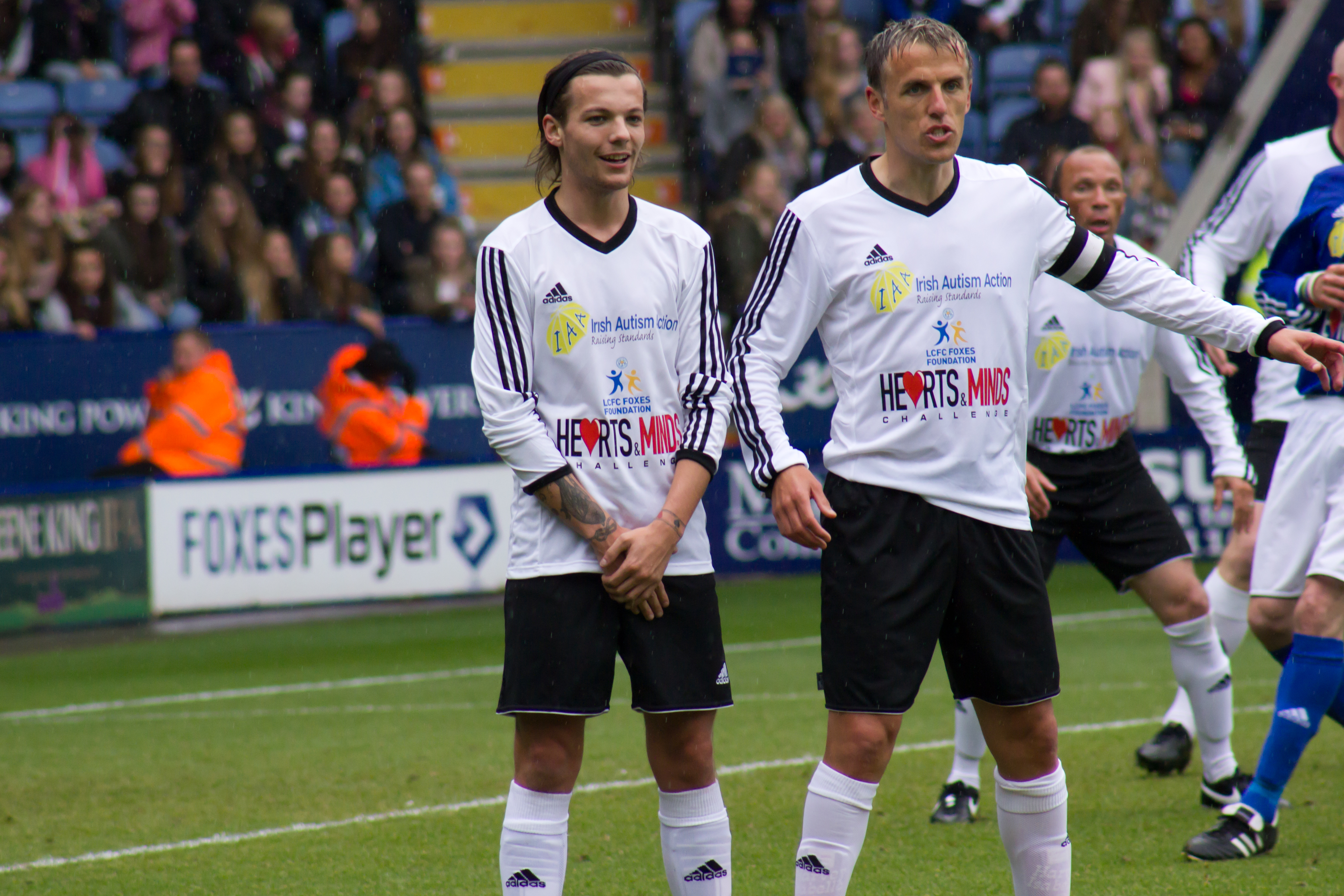 Louis Tomlinson at Niall Horan Charity Football Challenge